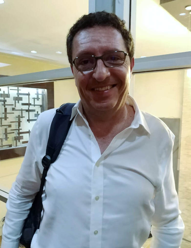 Oscar Vela in the 2019 Guayaquil International Book Fair